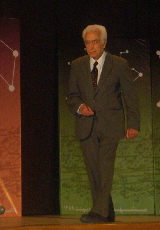 Dr. Mohammad Ali Eslami Nodushan, Khayyam Commemoration, 2010 Jun, Mashhad, Iran